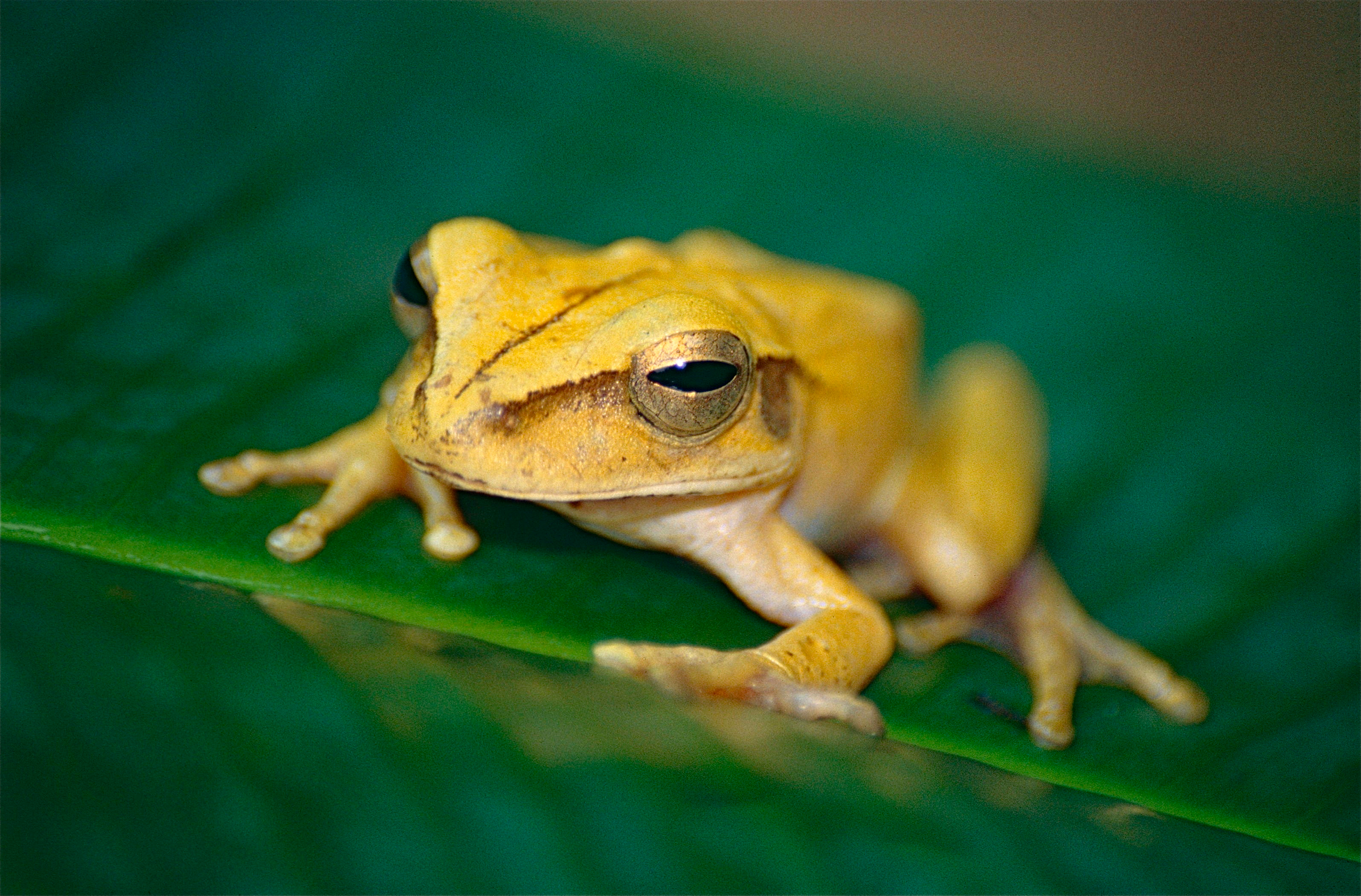 Route de Regina, Guyane, FRANCE Scanned Slide from 2000